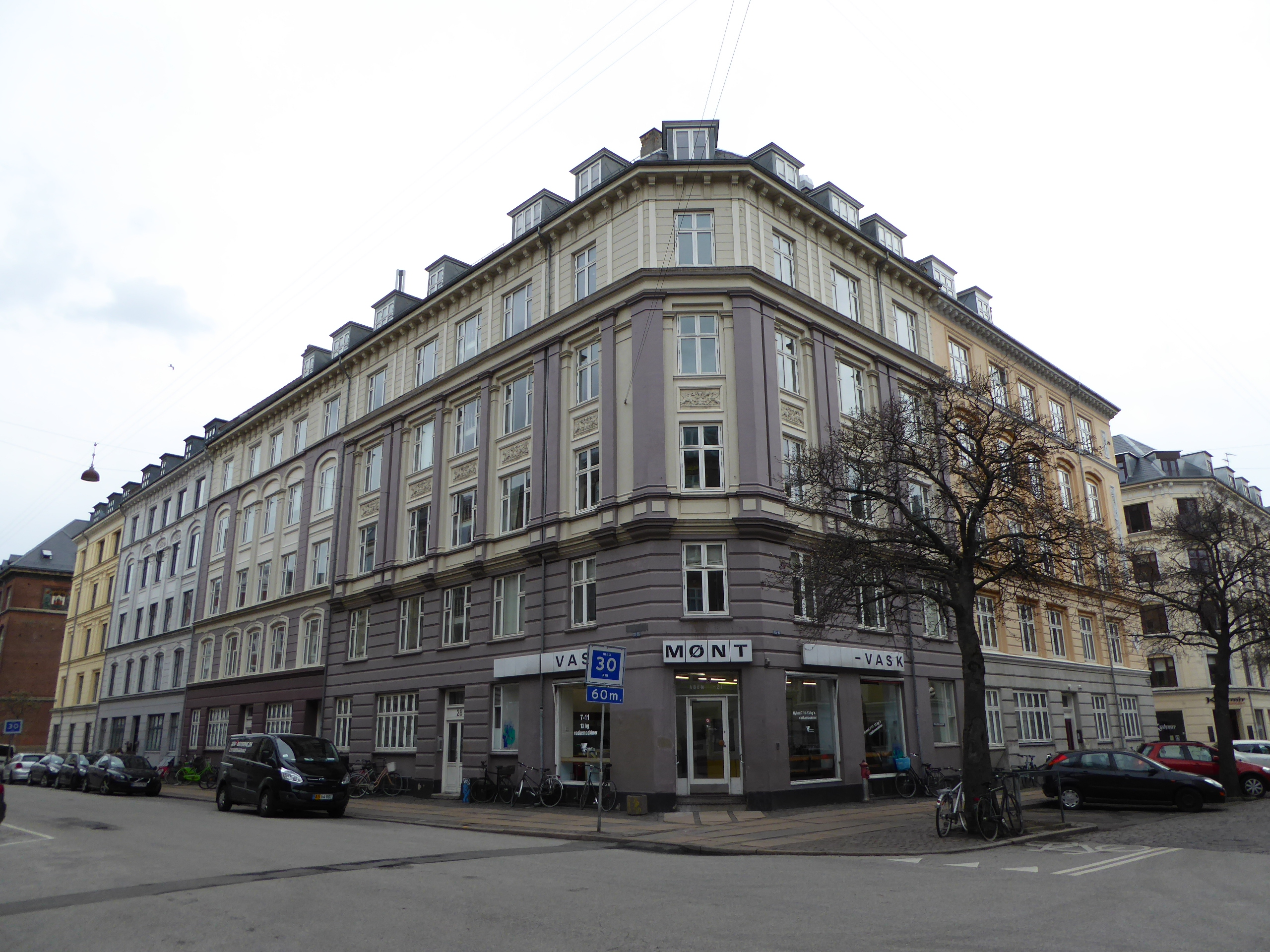 Buildings at the corner of Livjægergade and Willemoesgade in Østerbro in Copenhagen.